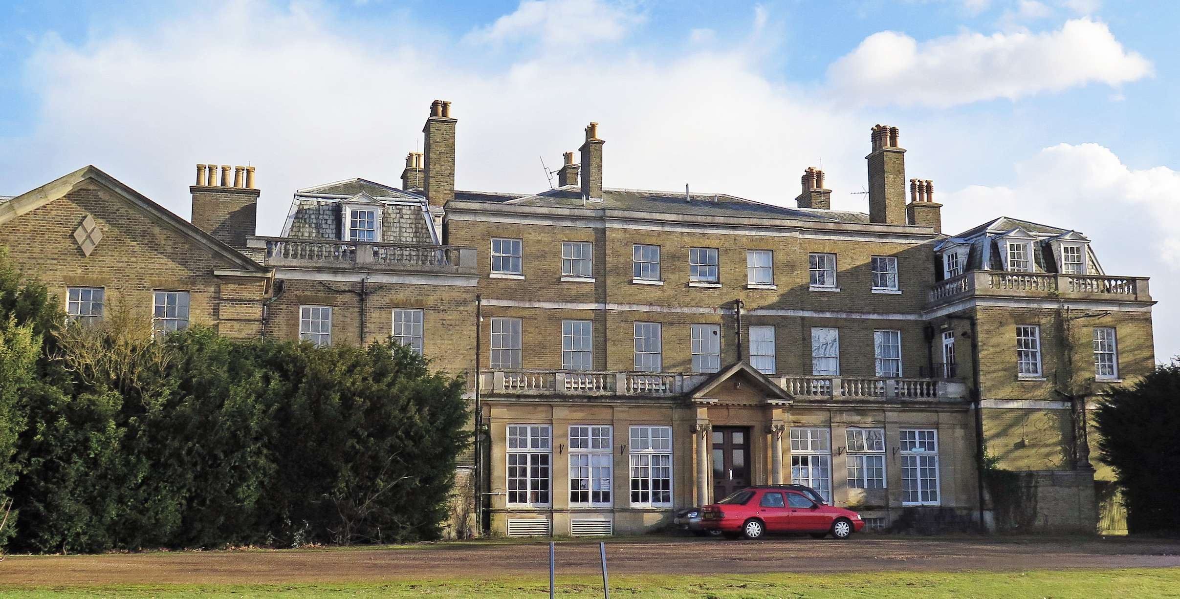 3 story large country house, yellowish brickwork